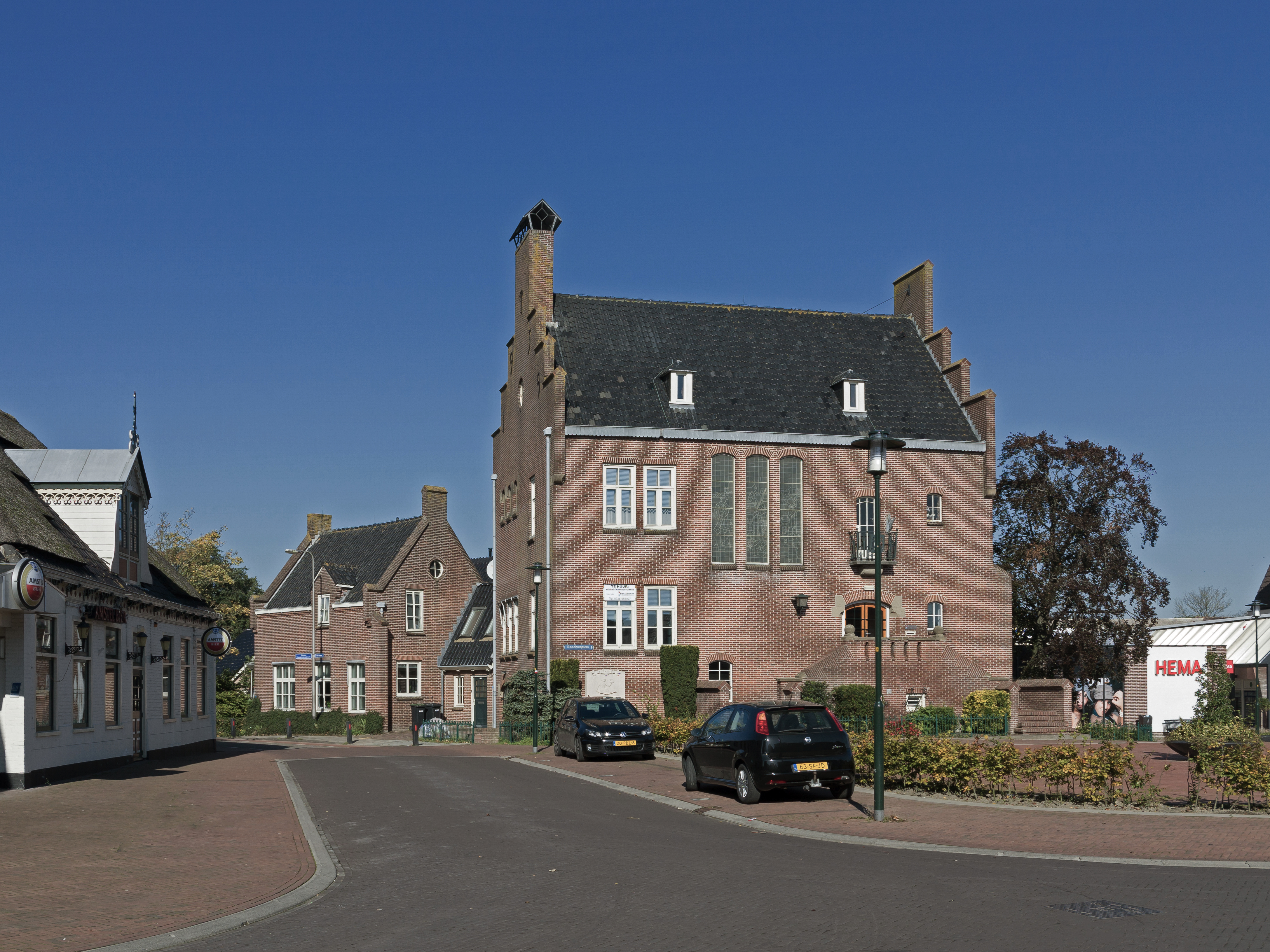 Wervershoof, fomer townhall